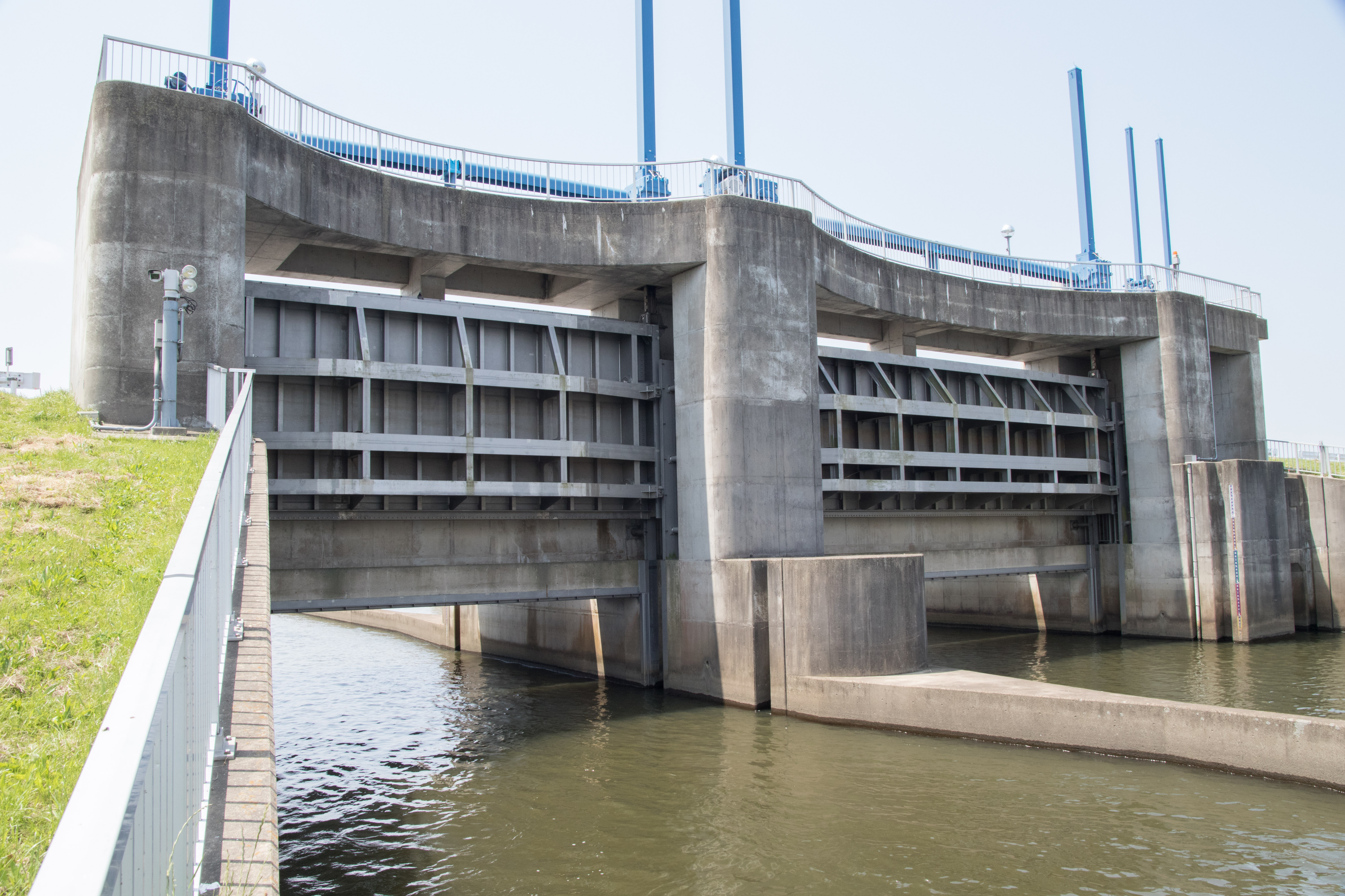 Tonegawa sluice gate(Tonegawa Himon 利根川樋門) of Ryoso Aqueduct(Ryōsō Yōsui 両総用水), Katori City, Chiba Pref., Japan